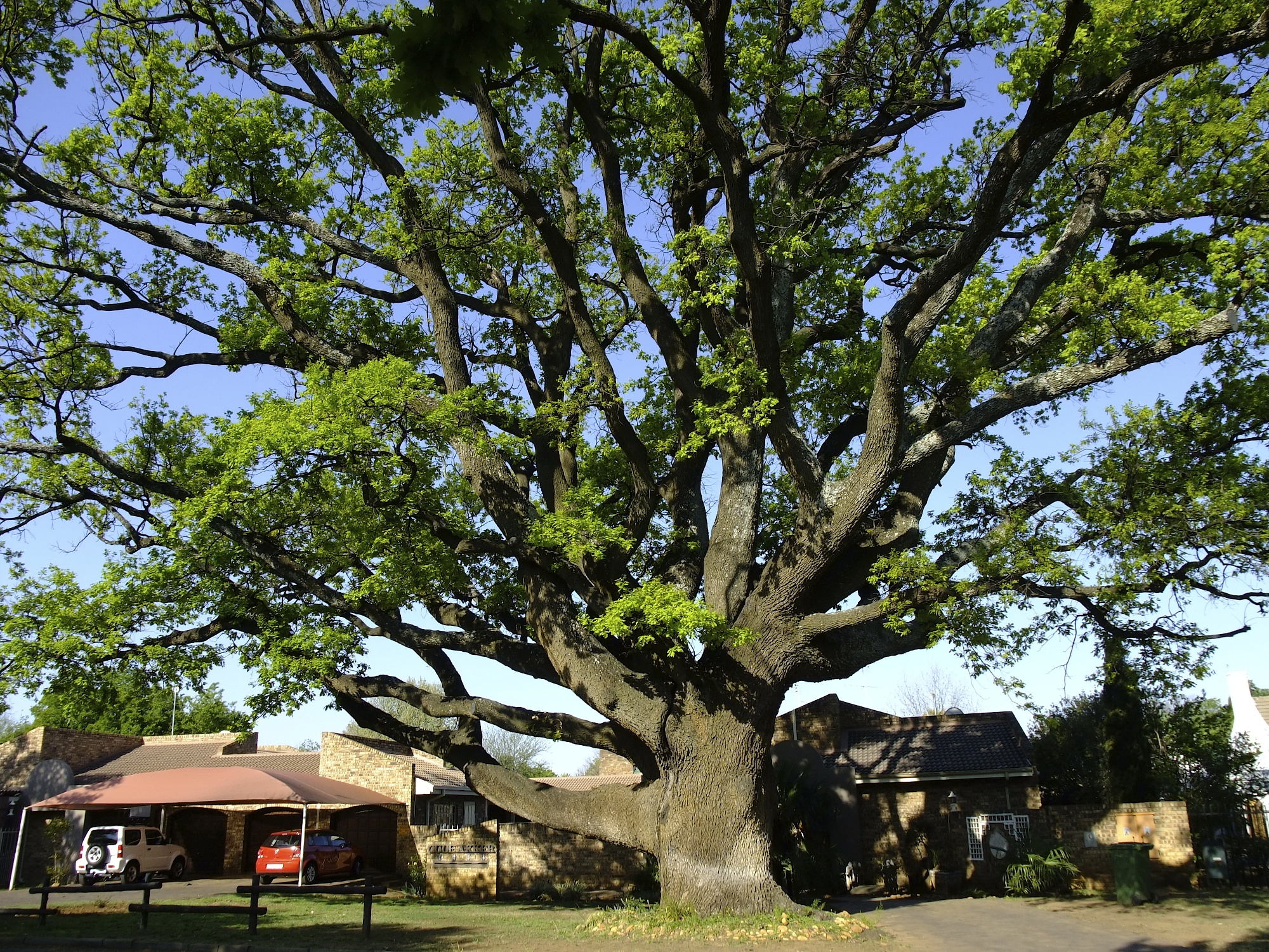 Oak Avenue, Potchefstroom This media shows a South African Protected Site with SAHRA file reference 9/2/256/0014.